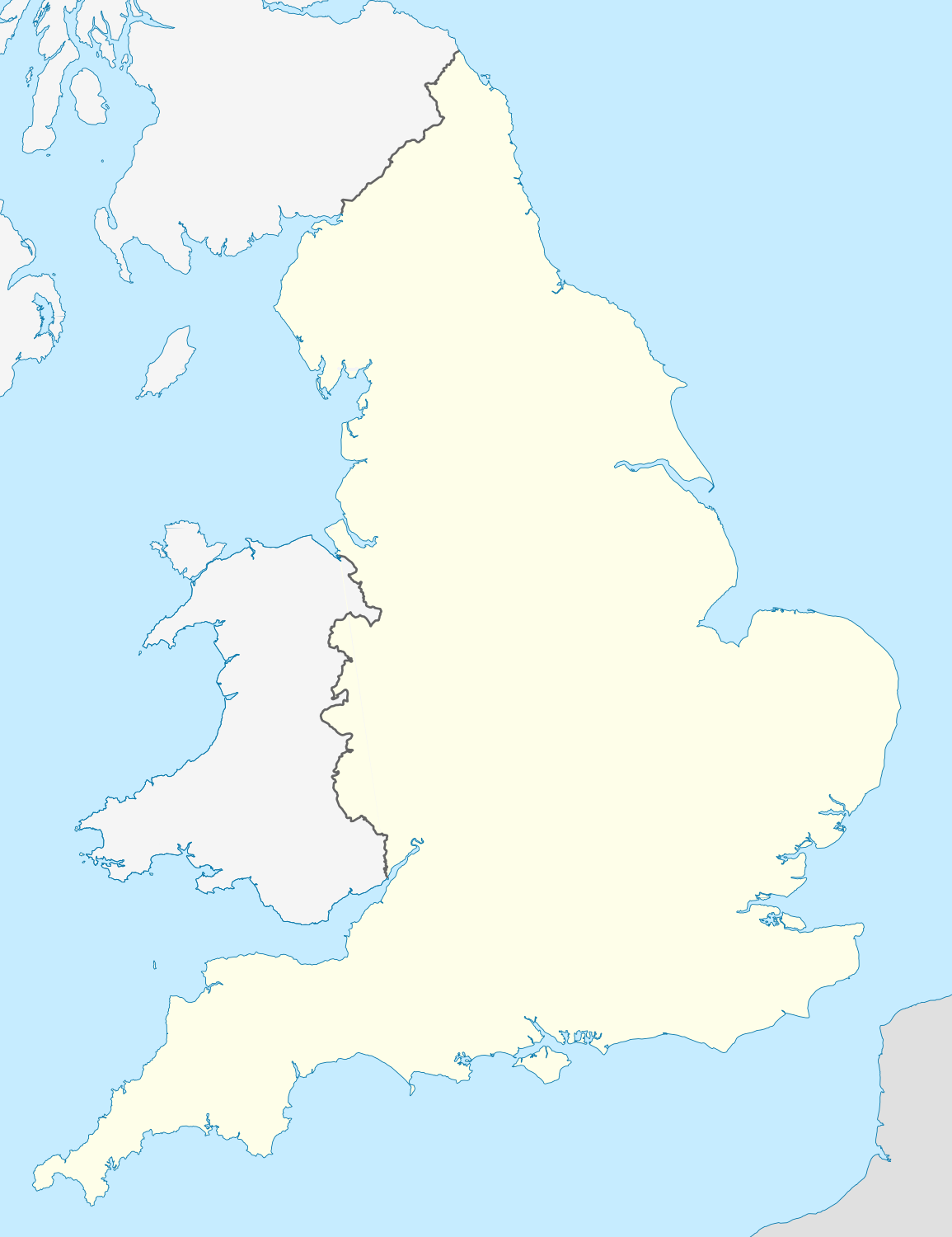 Location map of England.